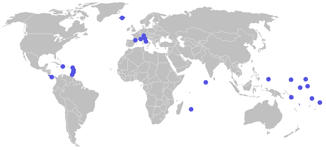 List of countries without armed forces